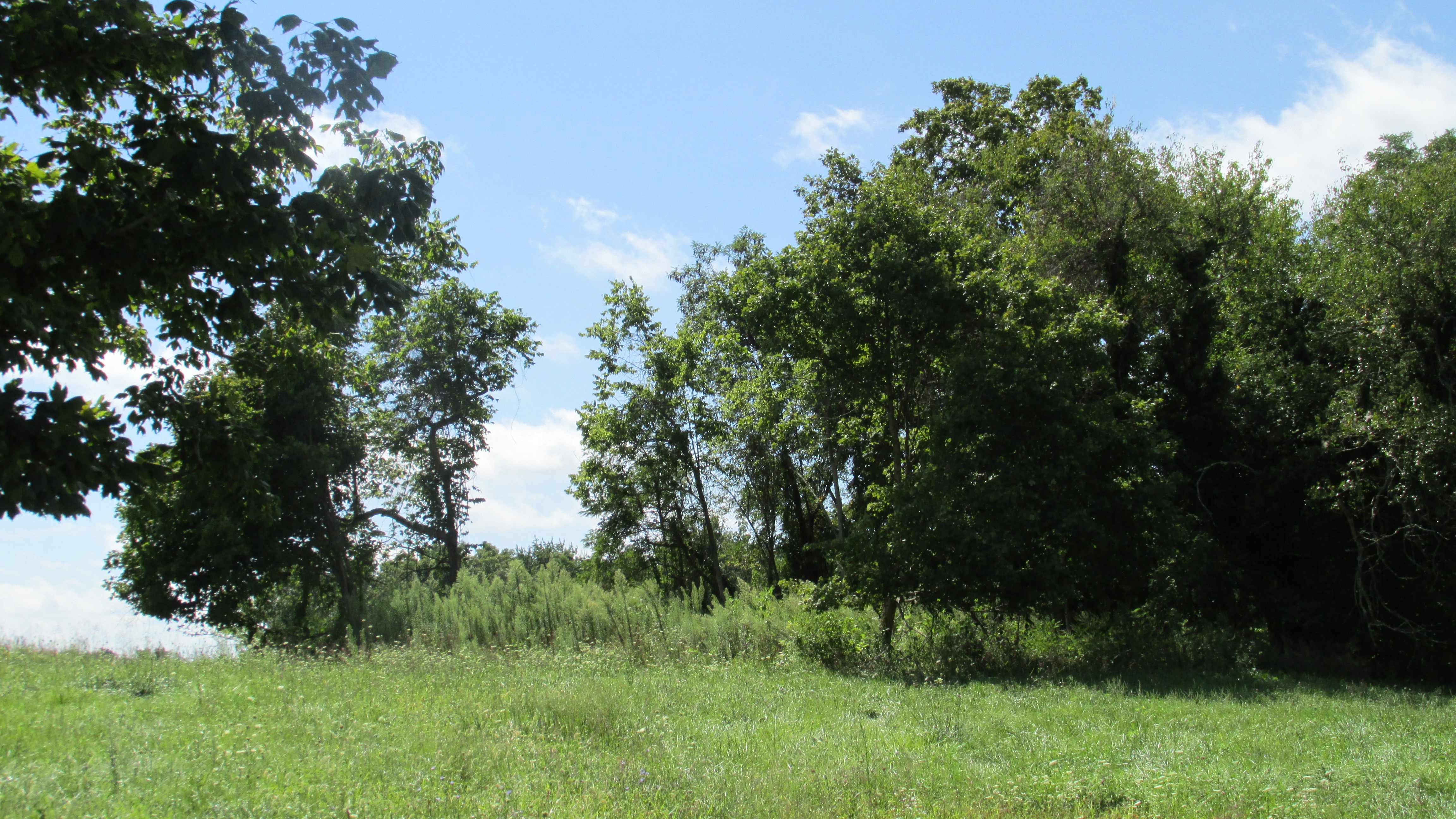 Former location of the Sutton House, east of Decatur, Ohio in Brown County.